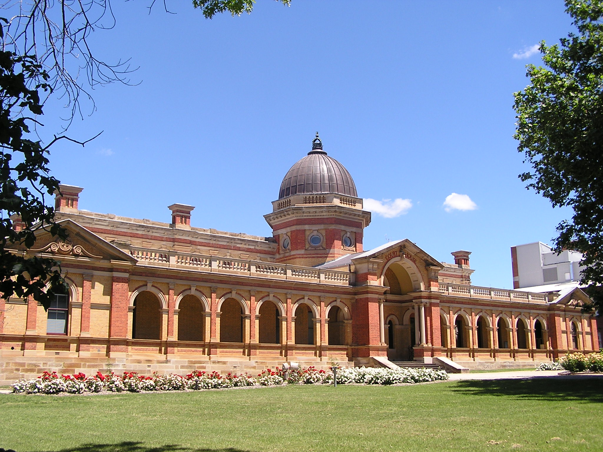 Goulburn, New South Wales, Australia Court House opened 1887. Italianate style, designed by the Colonial Architect James Barnet Picture taken by AYArktos